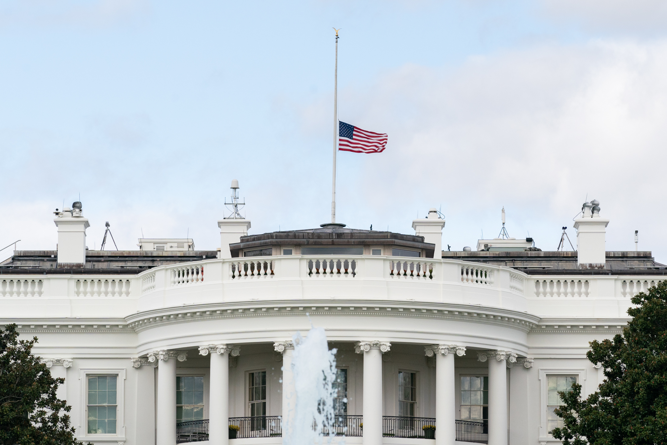 The U.S. flag is seen flying at half-staff Thursday, Oct. 17, 2019, atop the White House in honor of Rep. Elijah Cummings, D-Md, who died Thursday in Baltimore, Md. (Official White House Photo by Andrea Hanks)